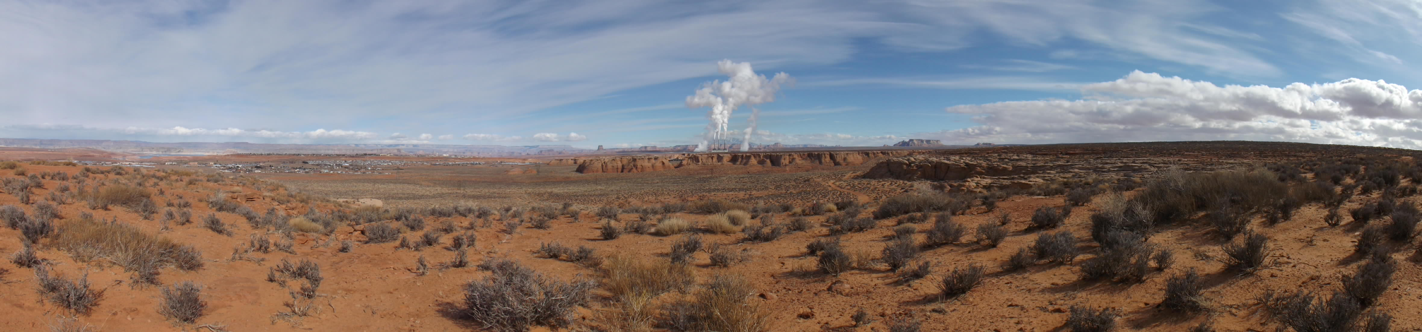 Panorama from mesa south of Page, AZ, overlooking Honey Draw toward the East. The town of Page can be seen in the left half, with Lake Powell and the Kaiparowits Plateau in the background, the Navajo Generating Station in the middle, and Leche'e Rock and the smaller Mountain Sheep Rock to the right. The community of LeChee, AZ is slightly visible in front of Mountain Sheep Rock.